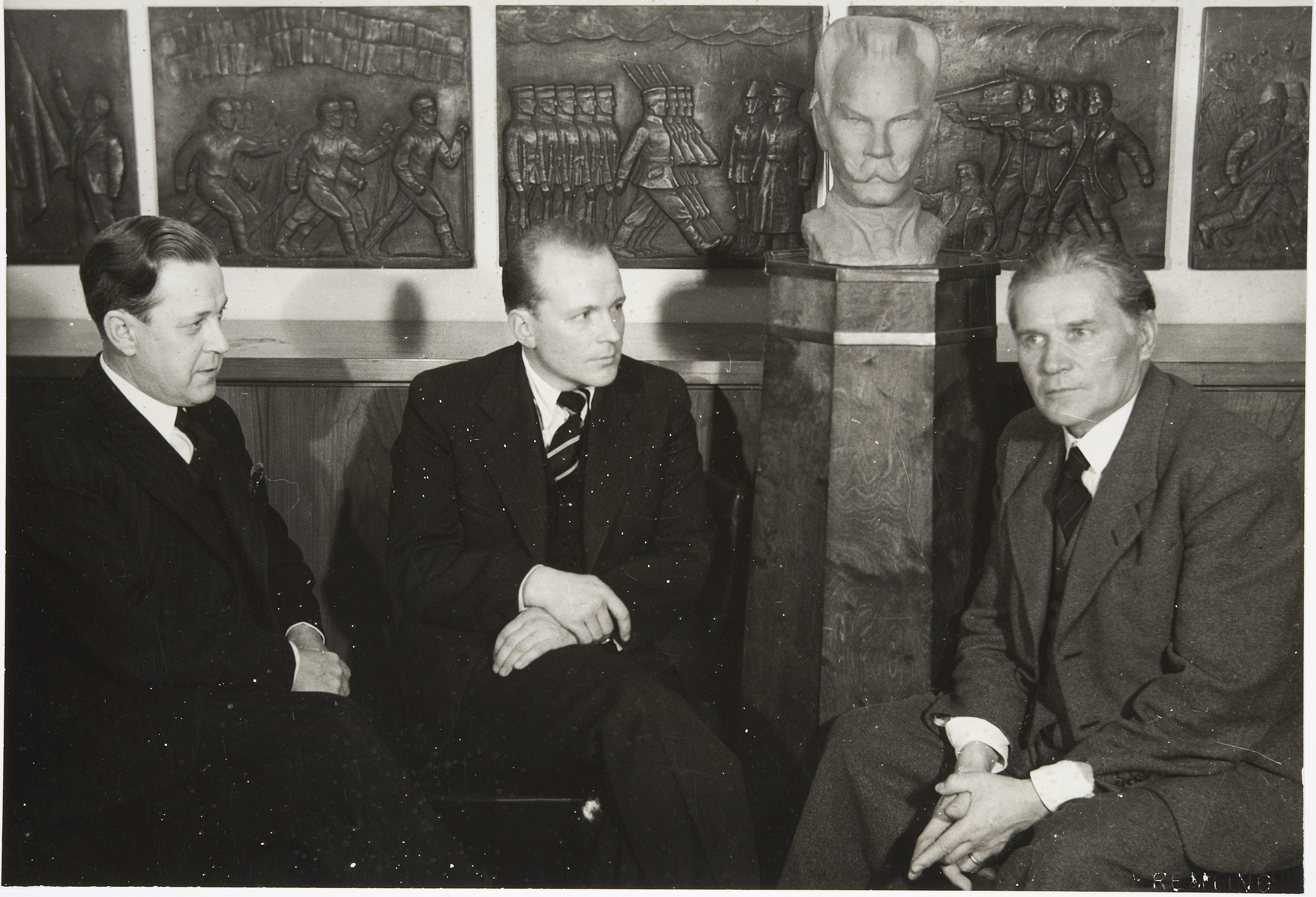 Photograph of the Finnish writer Kaarlo Marjanen (1899–1984), sculptor Kalervo Kallio (1909–1969) and writer Einari Vuorela (1889–1972) at Ostrobotnia, Helsinki.